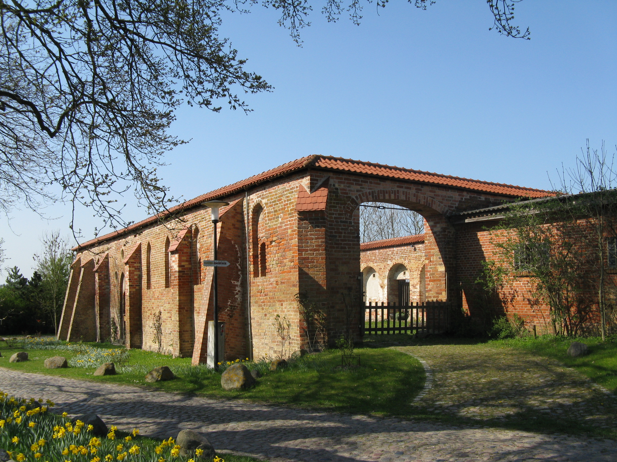 Monastery in Tempzin, disctrict Parchim, Mecklenburg-Vorpommern, Germany